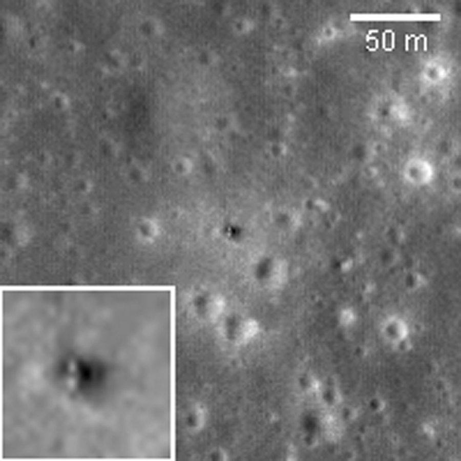 Luna 16 descent stage as seen from orbit by Lunar Reconnaissance orbiter 2 September 2009